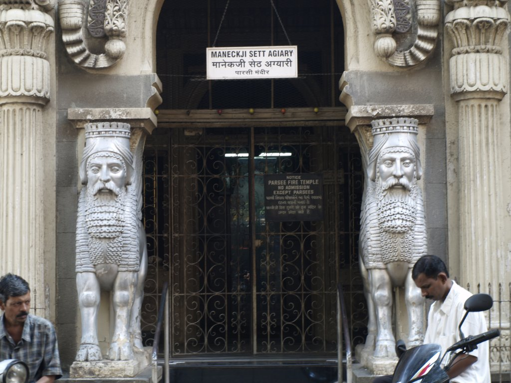 Maneckji Sett Agiary, the oldest parsi fire temple in Bombay